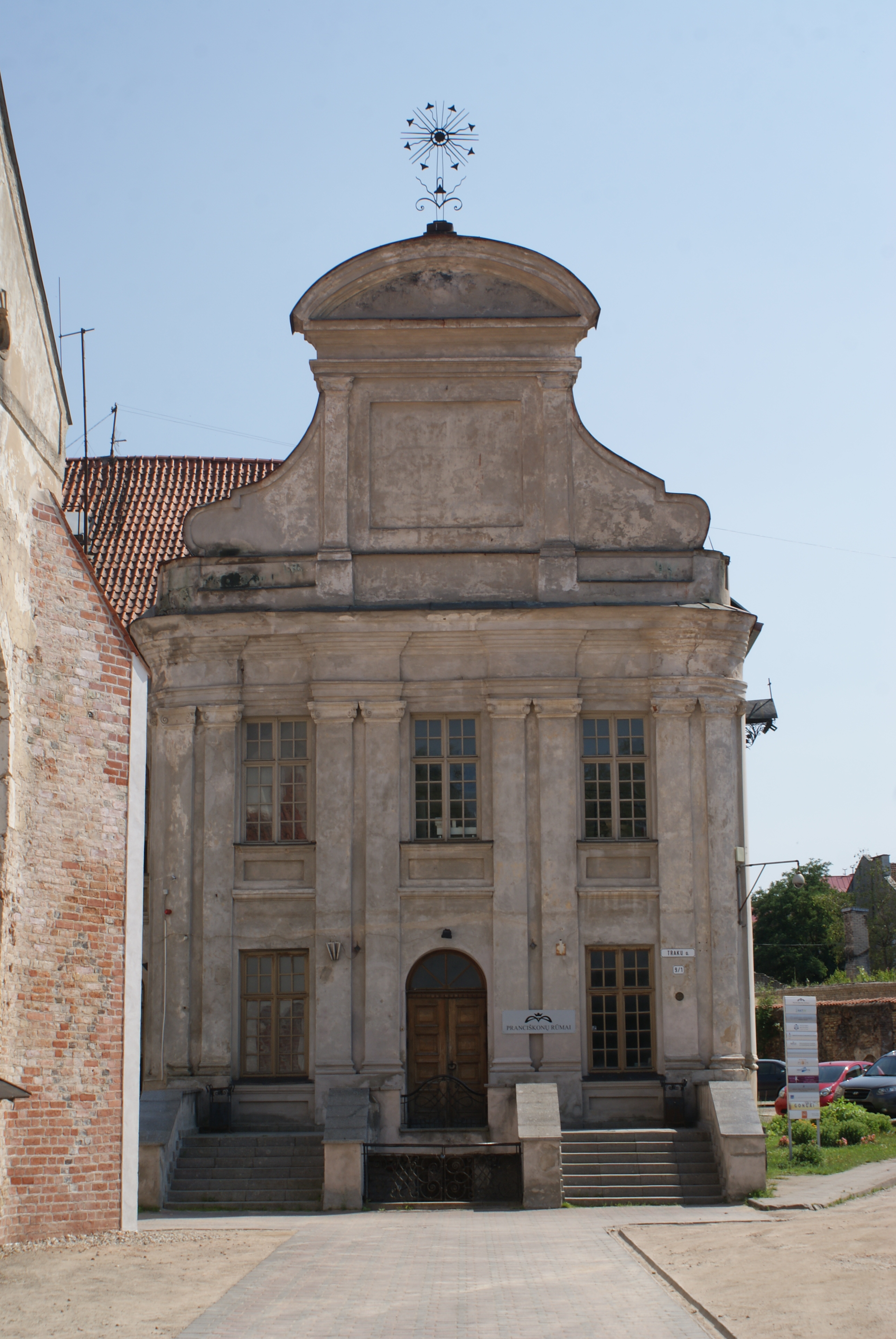 Church of the Assumption of the Blessed Virgin Mary in Vilnius